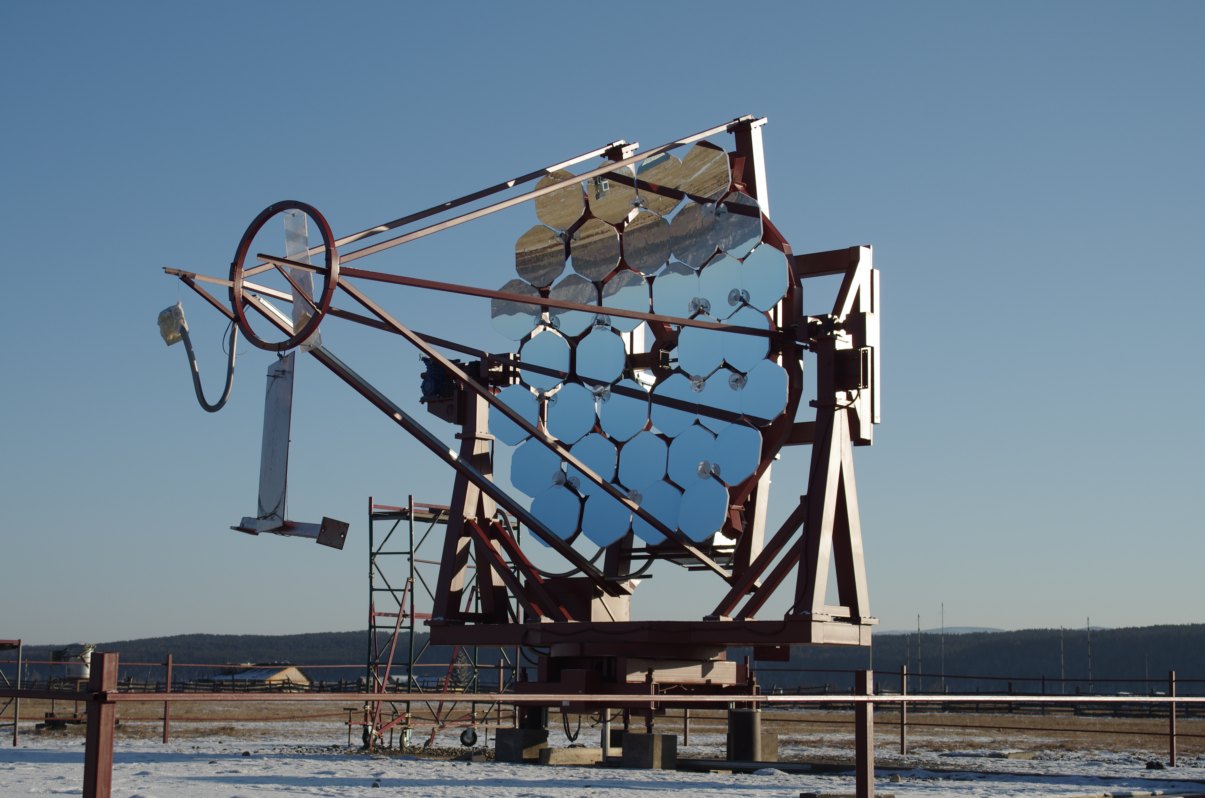 A close-up of the second (incomplete) Imaging Atmospheric Cherenkov Telescope (IACT) instrument at the TAIGA observatory amidst the other TAIGA instruments with the Khamar-Daban visible on the background